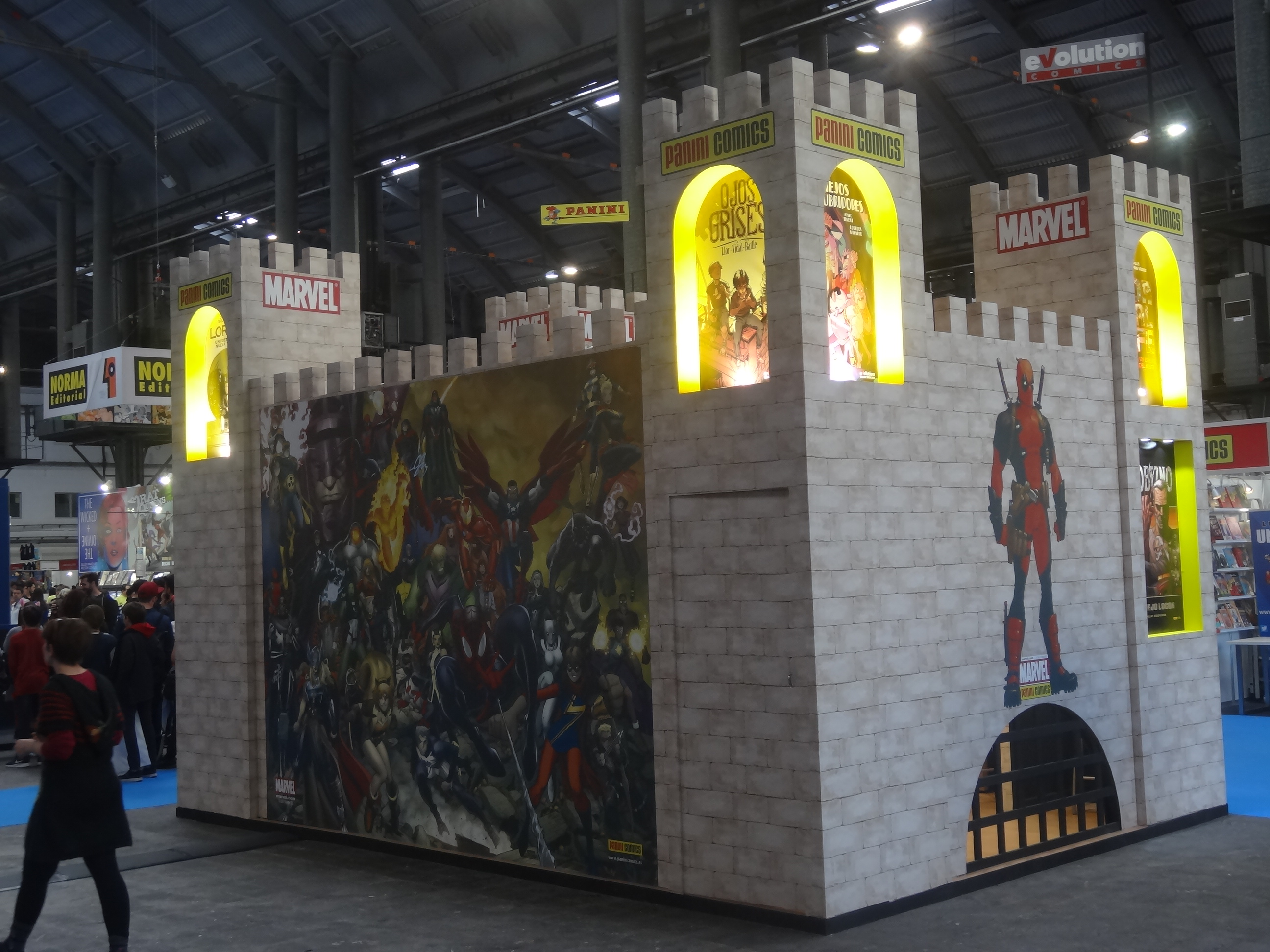 Barcelona International Comic Fair 2017.